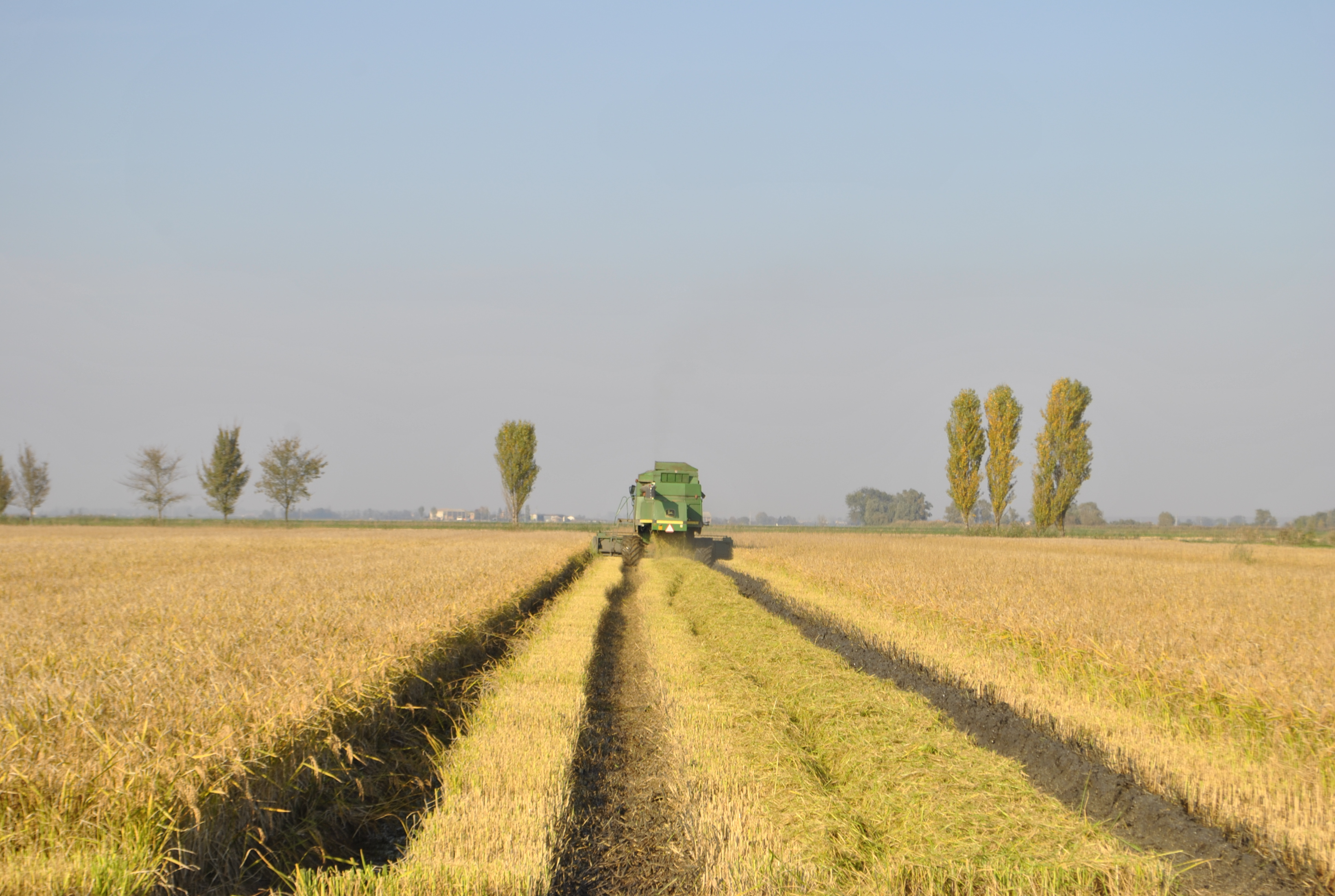 Threshing machine and rice fields in Jolanda di Savoia (Ferrara). Italy